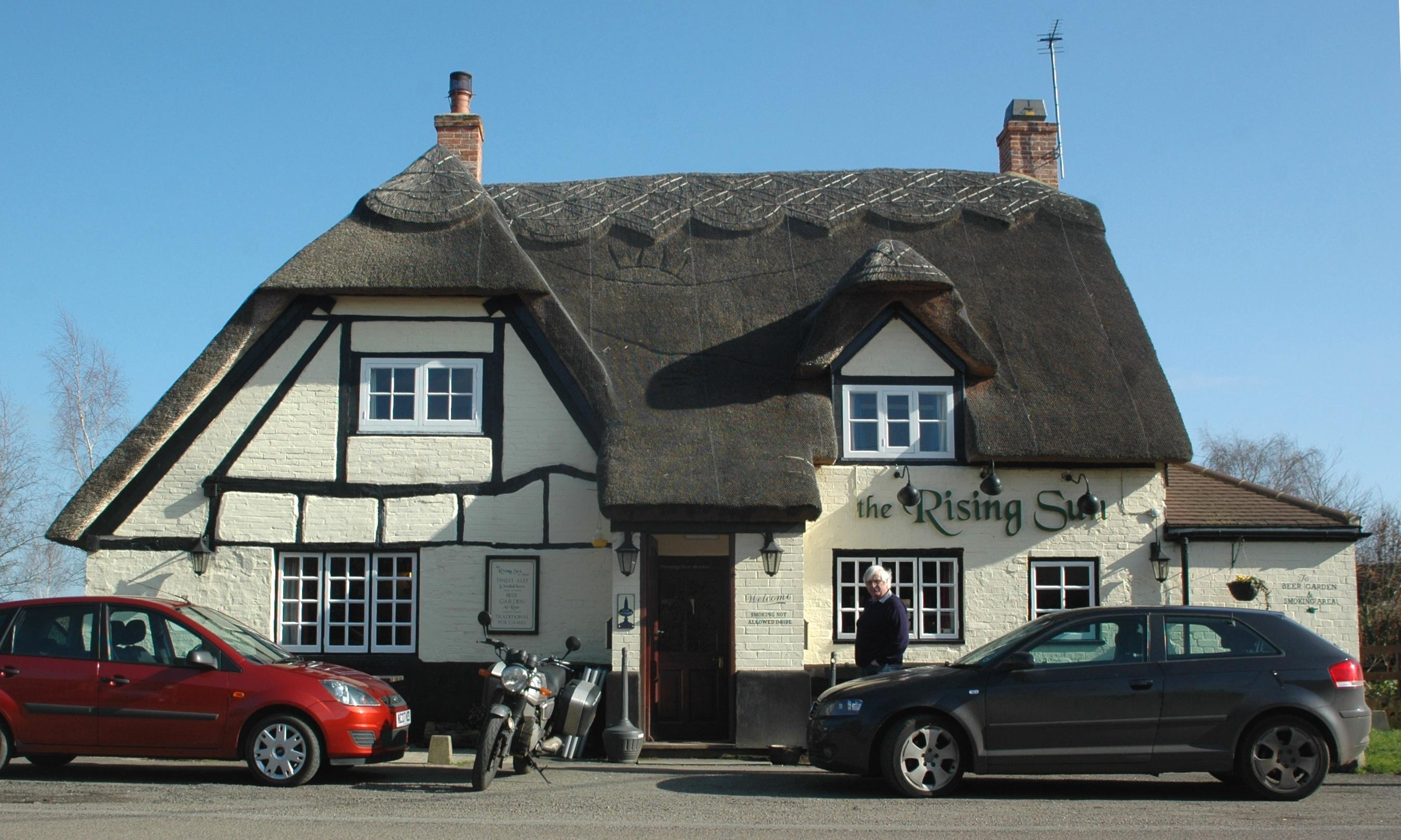 The Rising Sun public house, Worminghall Road, Ickford, Buckinghamshire